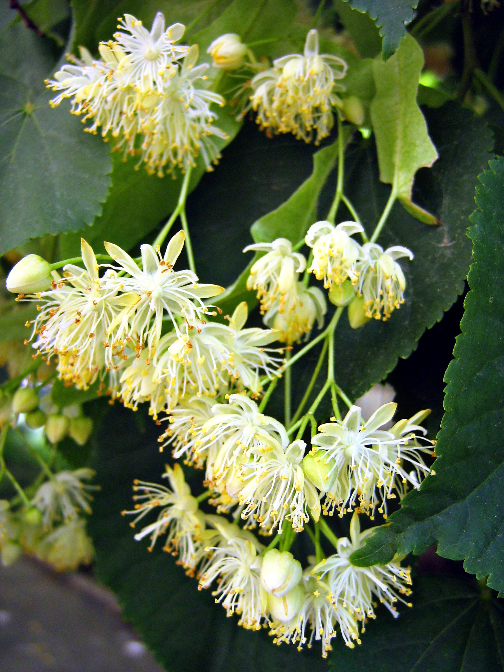 Tilia. Flowers.